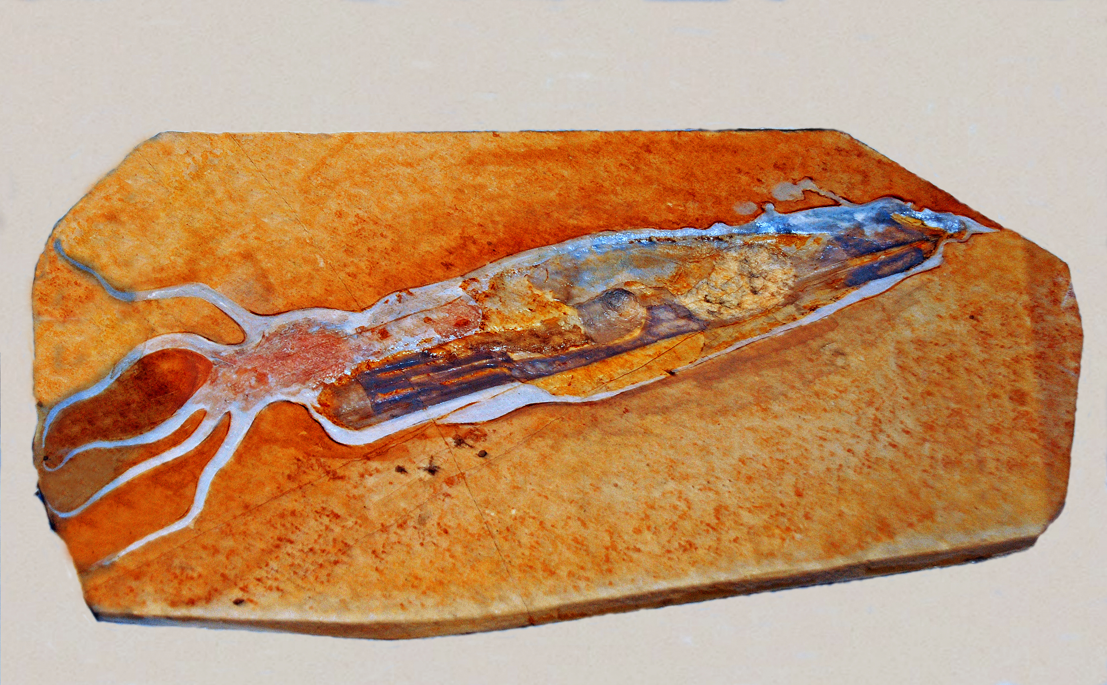 Plesioteuthis prisca. Jurasssic of Solnhofen, Germany